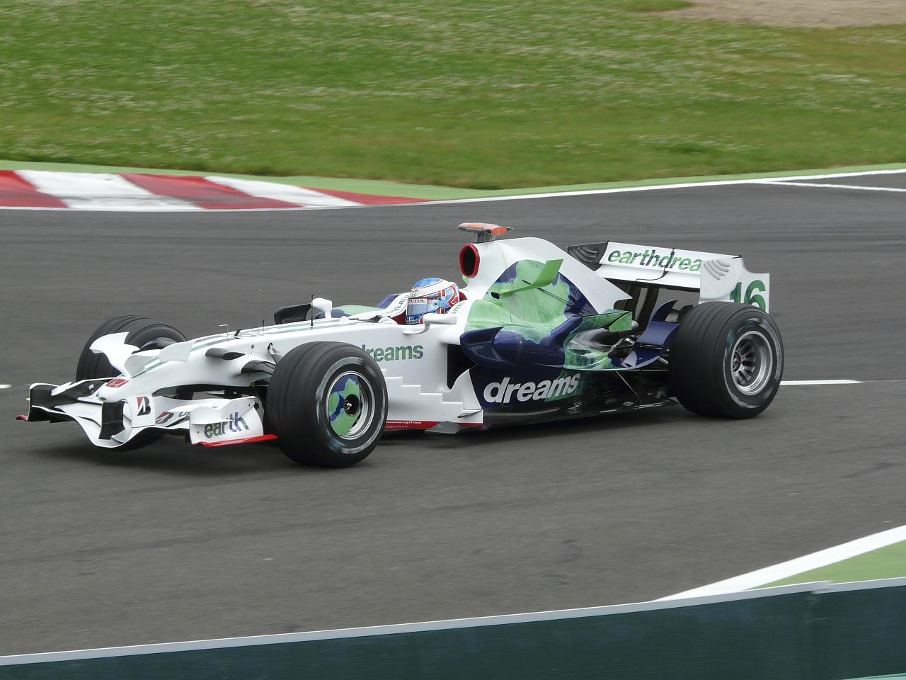 Jenson Button at 2008 French Grand Prix